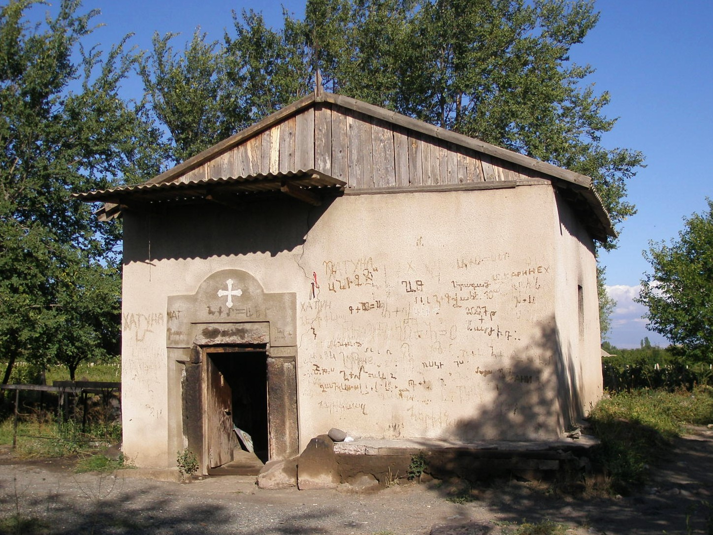 Karmravor chapel at Aghavnatun, Armenia. 6/8